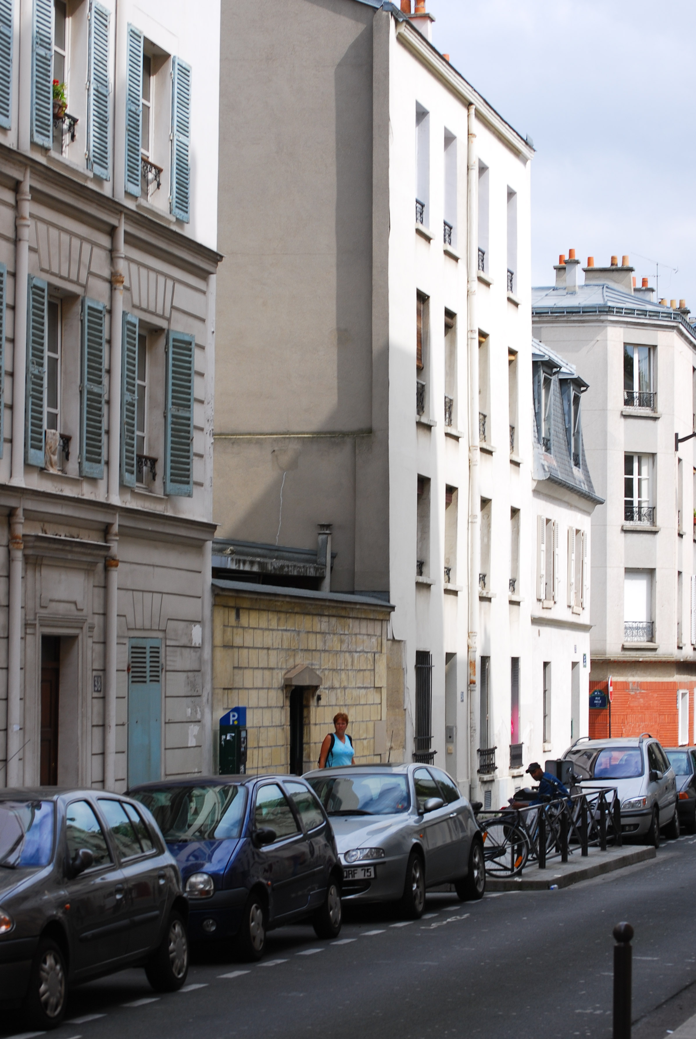 Pavillon de sortie des Catacombes de Paris. The Catacombs spit out onto an ordinary residential street, out of the nondescript, unlabeled exit shown here. To give you an idea of the size of that place, the exit is roughly two subway stops and half a mile away from the entrance. A lone security guard stands watch, no doubt to ensure you don't make off with any skulls.